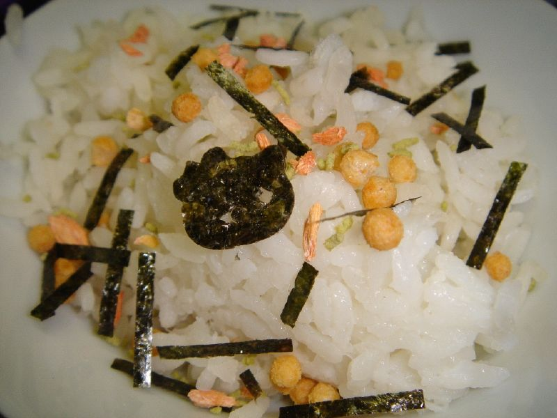 Instant chazuke topping sprinkled on rice